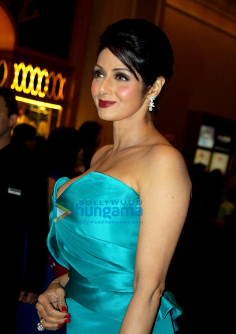 Sridevi at IIFA Awards 2013 Green Carpet in Macau